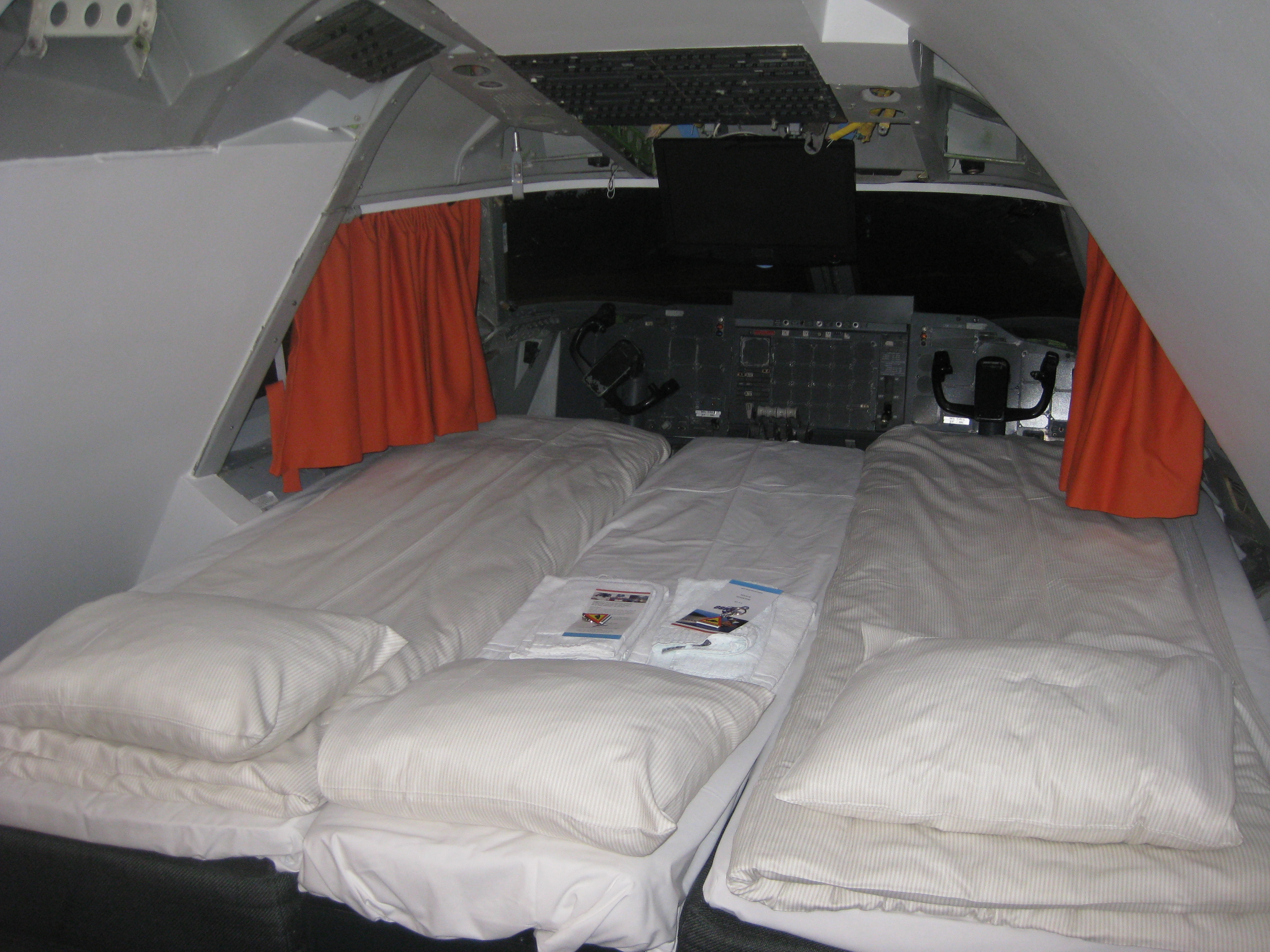 The suite of the Jumbo Hostel, in room number 747. It is located in the cockpit of the plane and is the only room with its own bathroom.